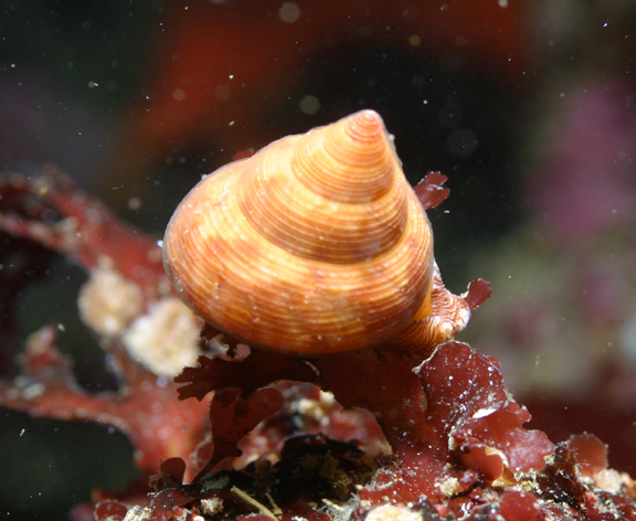 The glorious top snail Calliostoma gloriosum on a red alga.